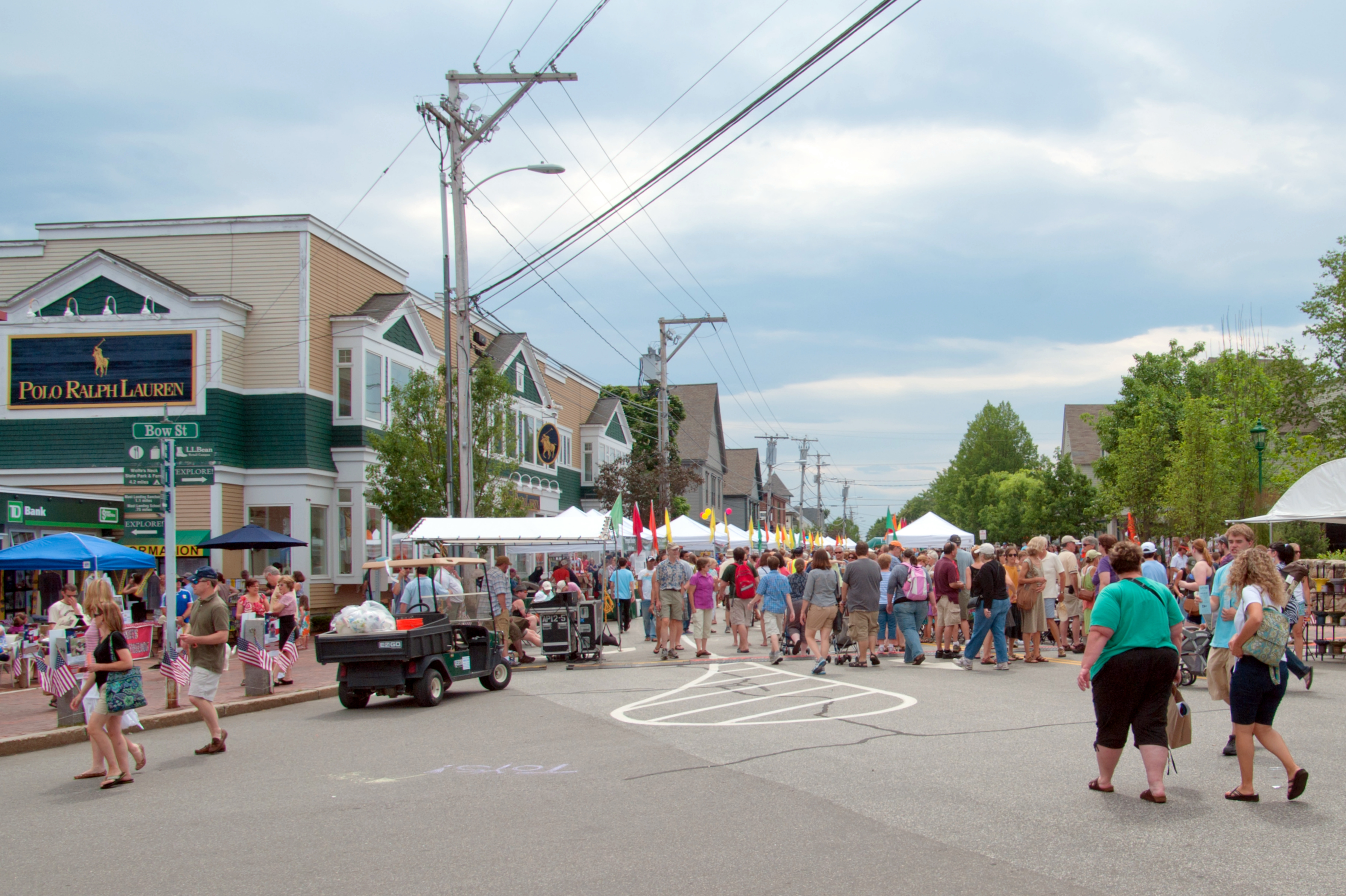 Main street of Freeport, Maine on the day of L.L. Bean's 100th anniversary.